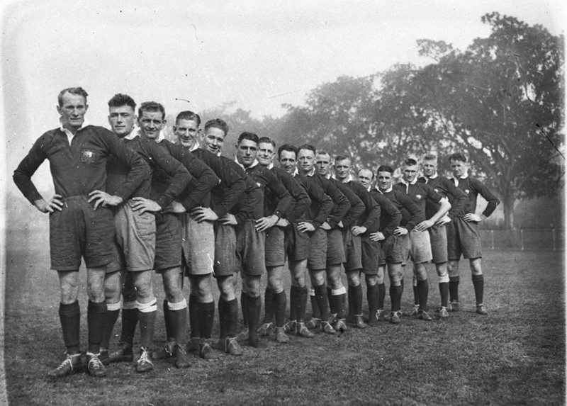 The Australian Kangaroos before the 1st Test in Sydney June 6, 1932: Herb Steinohrt (c), Dan Dempsey, Mick Madsen, Joe Pearce, Wally Prigg, Cliff Pearce, Fred Laws, Eric Weissel, Joe Wilson, J Little, Frank McMillan, Ernie Norman, Hec Gee, Abe Hall, Bill Christie, Frank O'Connor.